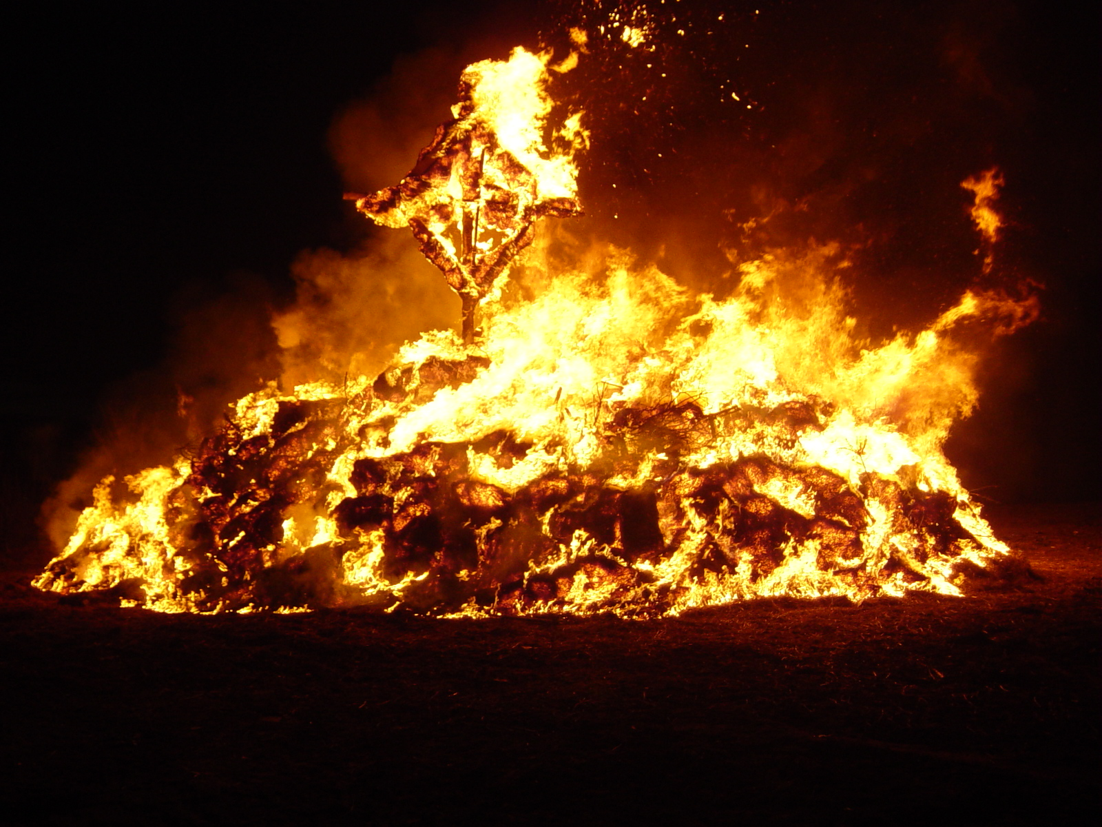 Mamer, Luxembourg - the Burgbrennen bonfire in mid-February Author: Ipigott